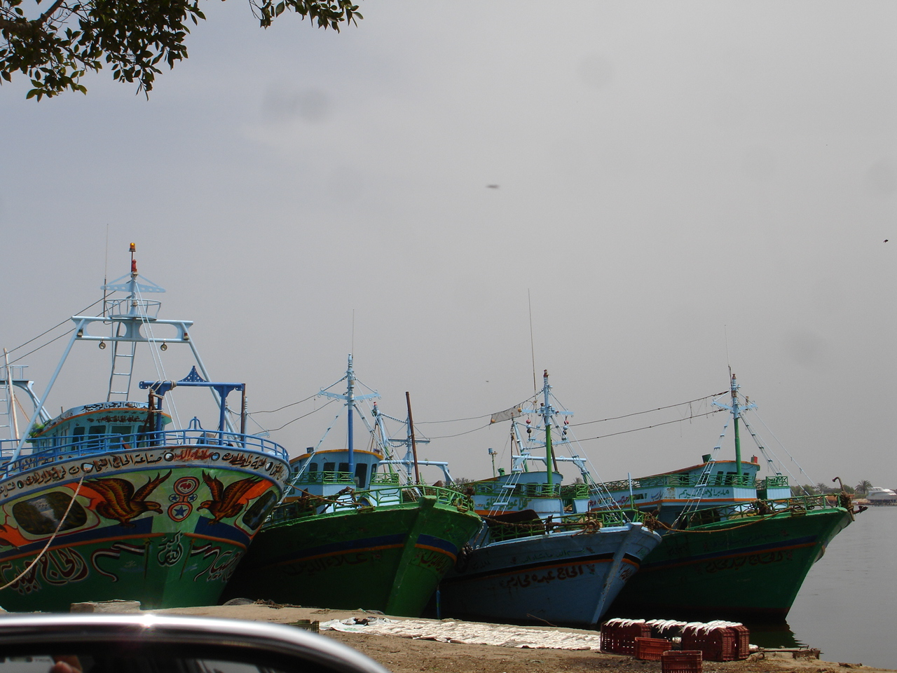 Pea-green boats at Rosetta, (Author: Amr Fayez)